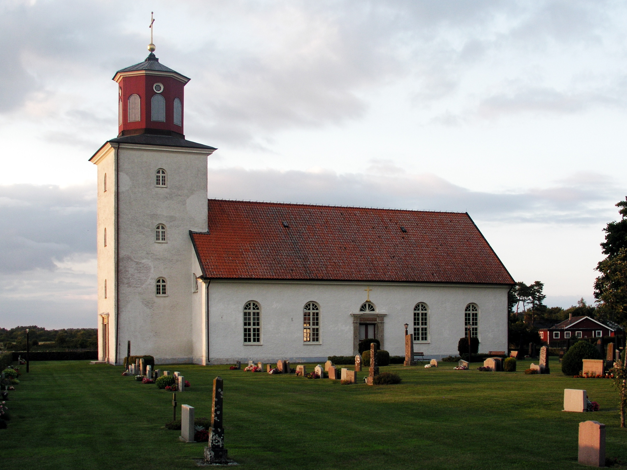 Gårdby church